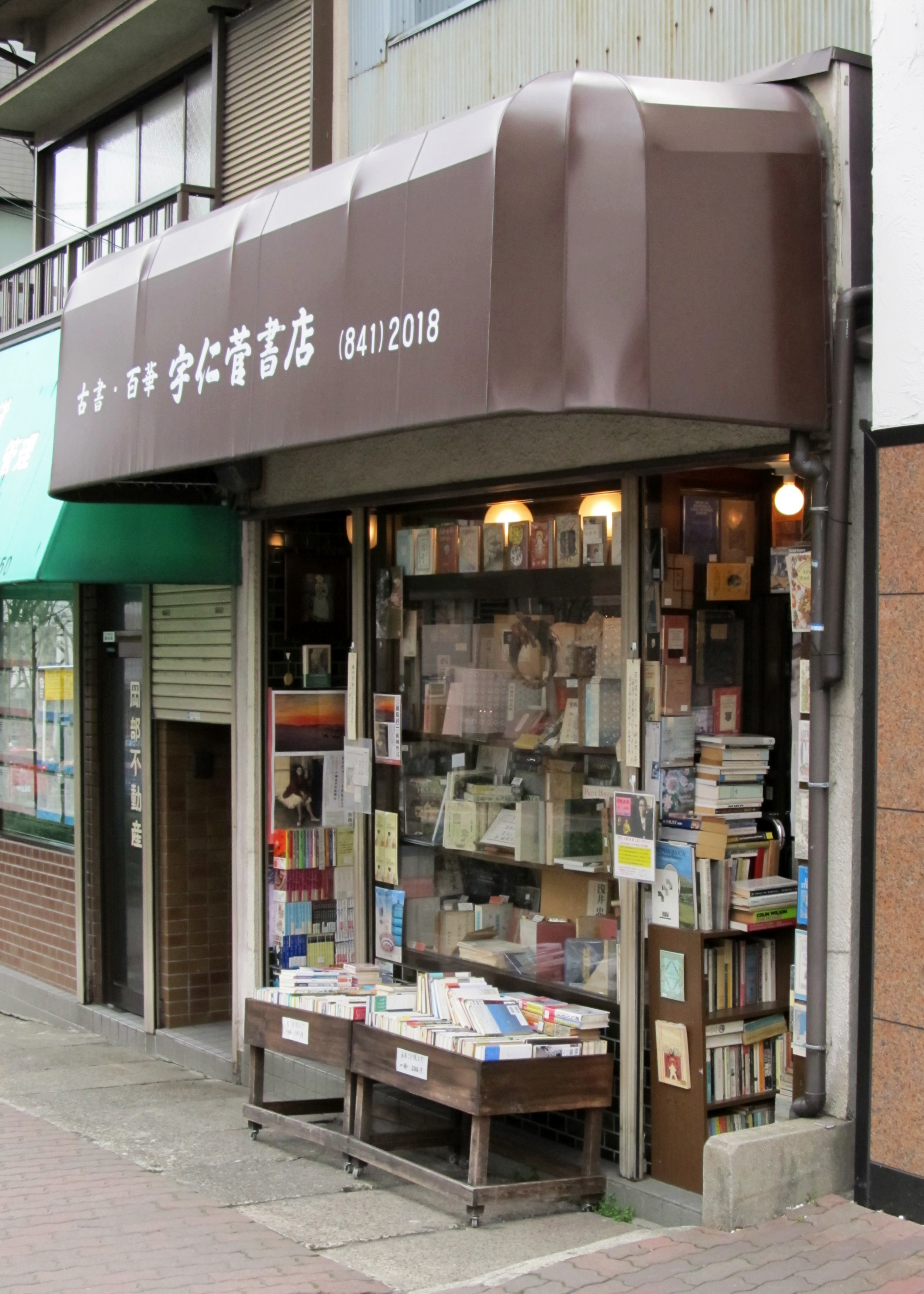 Japanese Used bookstore Unisuga Shoten (Nada-ku,Kobe,Hyogo Prefecture)